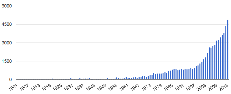 Board games published by year 1900-2015. Based on BGG's database and data from